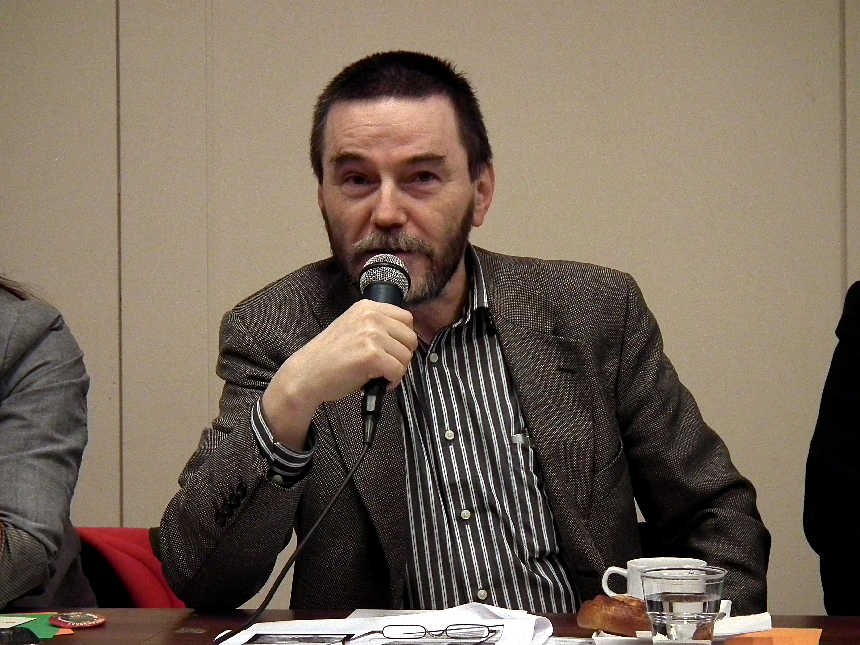 Antero Alku, Finnish politician